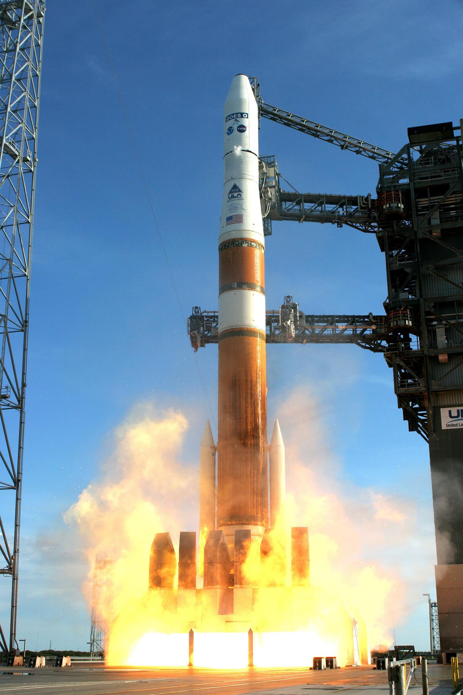 Delta IV rocket lifting off with GOES-O satellite. Upon achieving orbit it was renamed GOES-14.